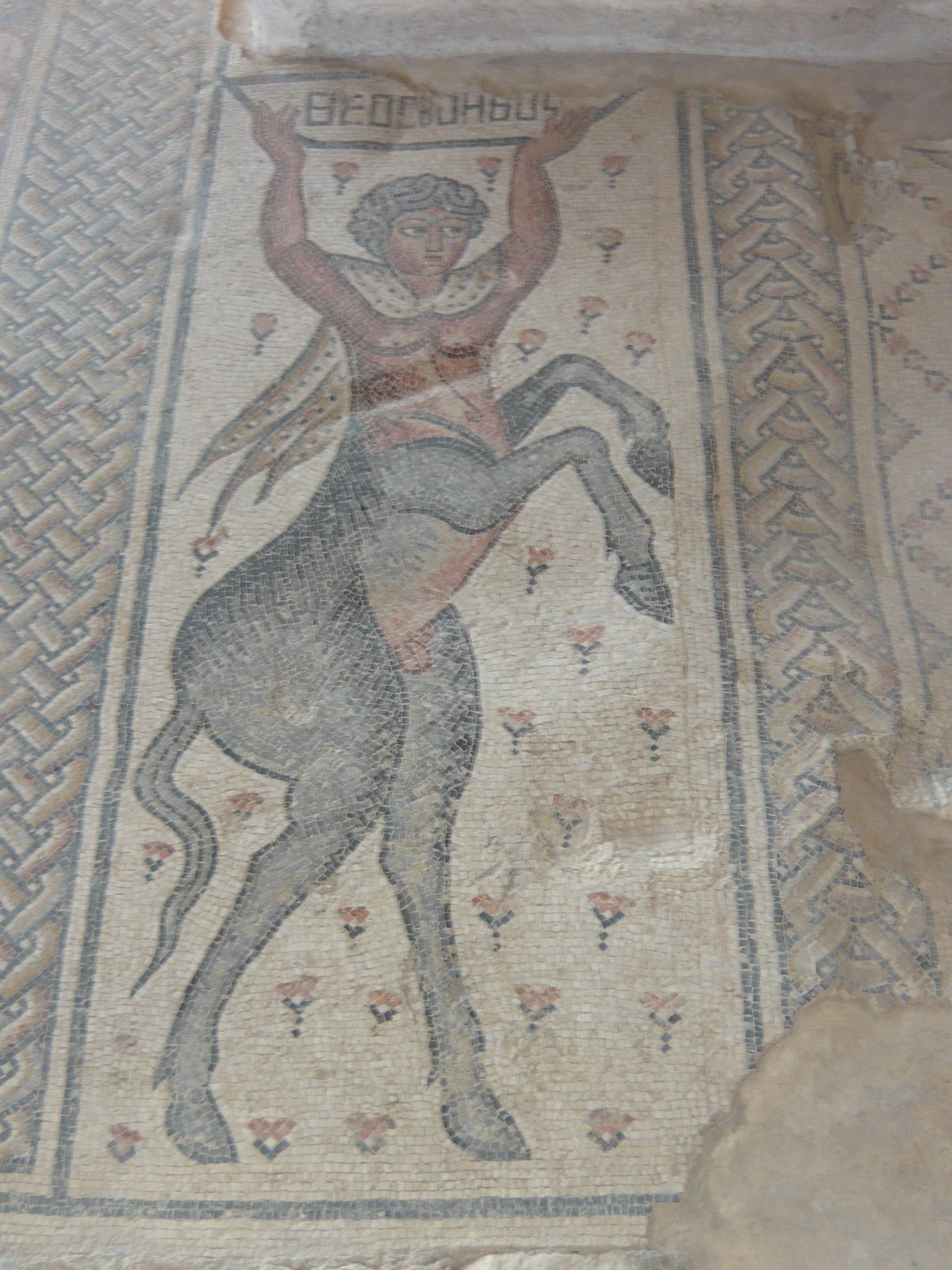 ancient mosaic in Tippori showing a centaur פסיפס עתיק בציפורי המראה קנטאור האוחז צלחת ועליה הכתובת "ידיד האל"